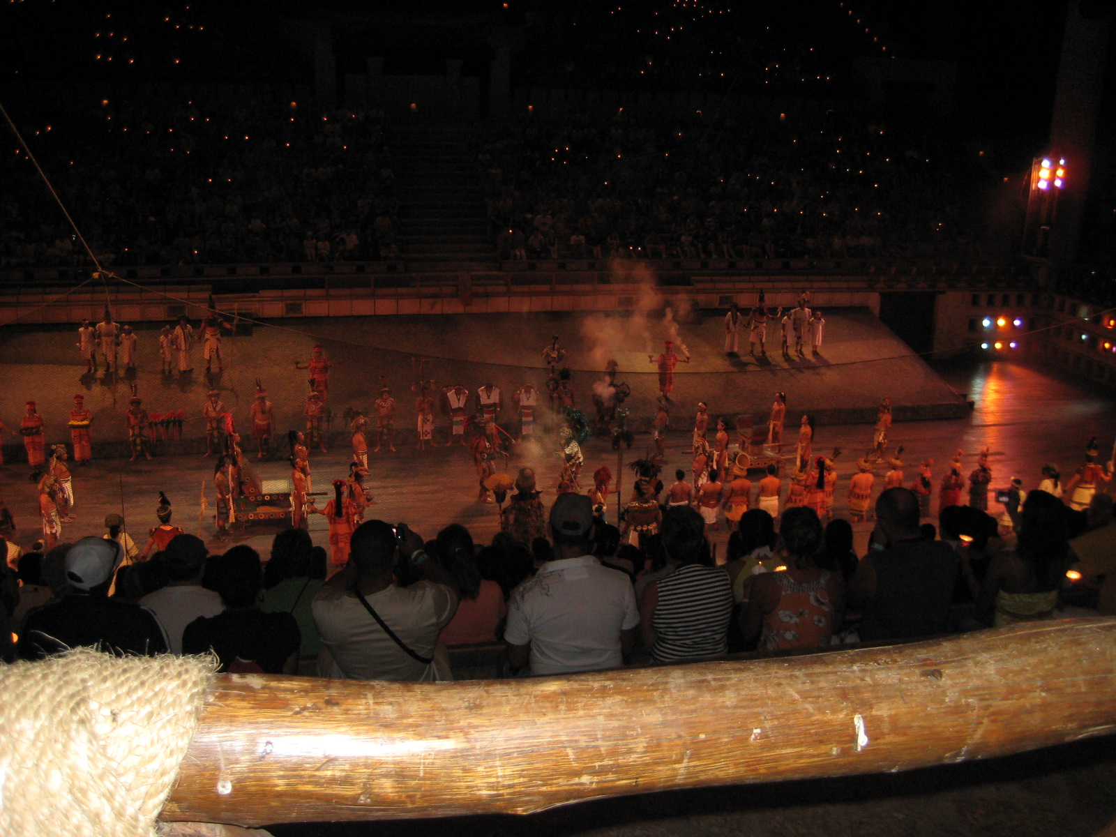 Gran Tlachco stage